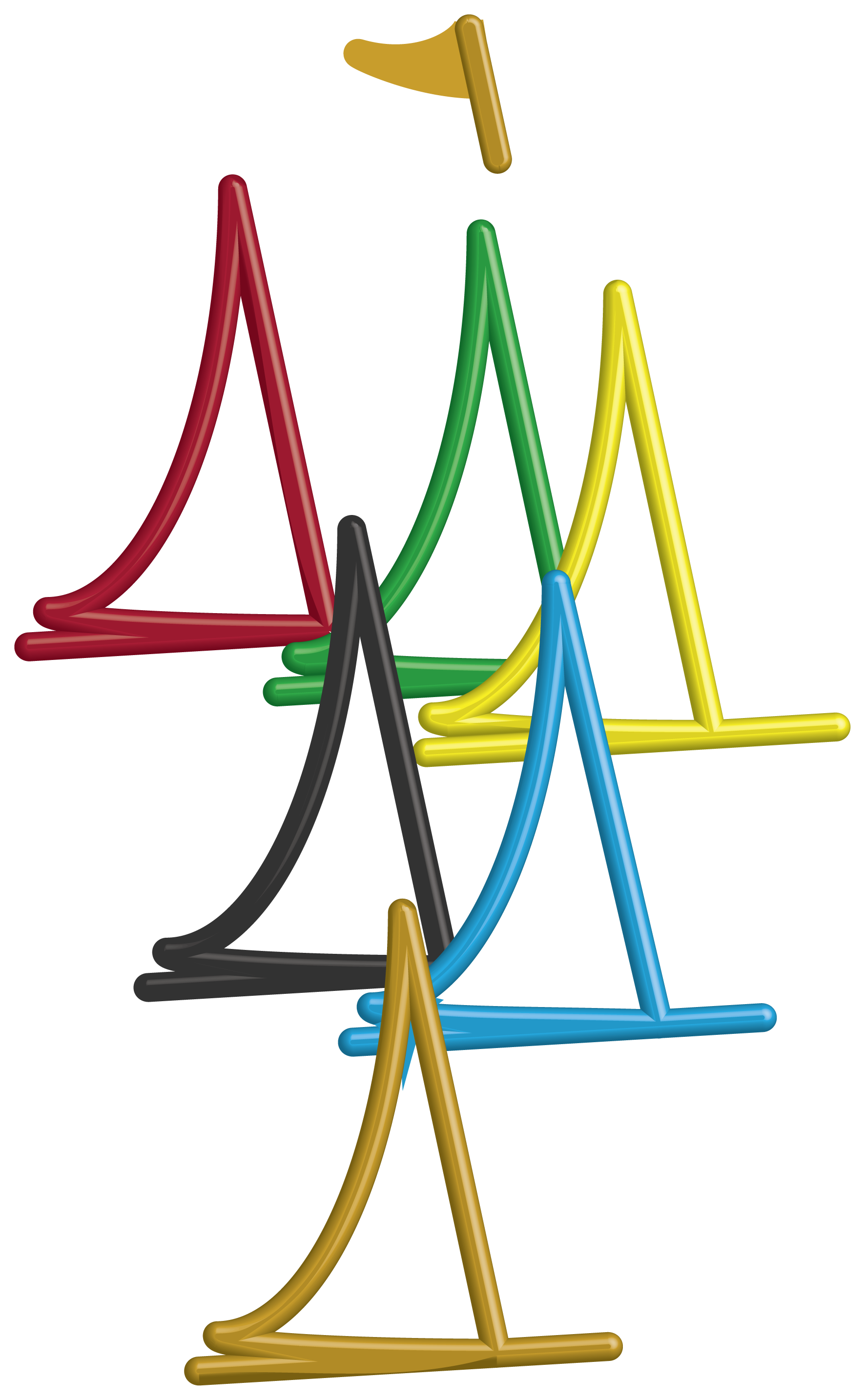 3D Logo Vintage Yachting Games Organization